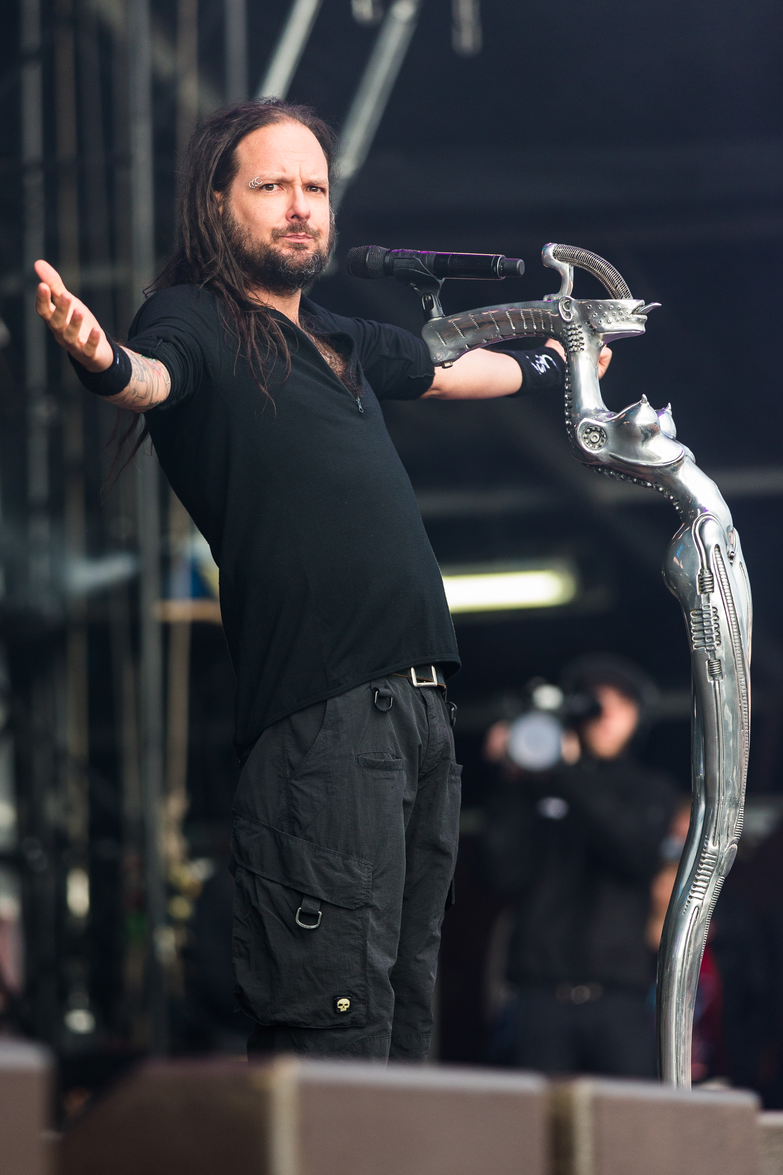 Rock'n'Heim Rock Festival Hockenheim August 2014